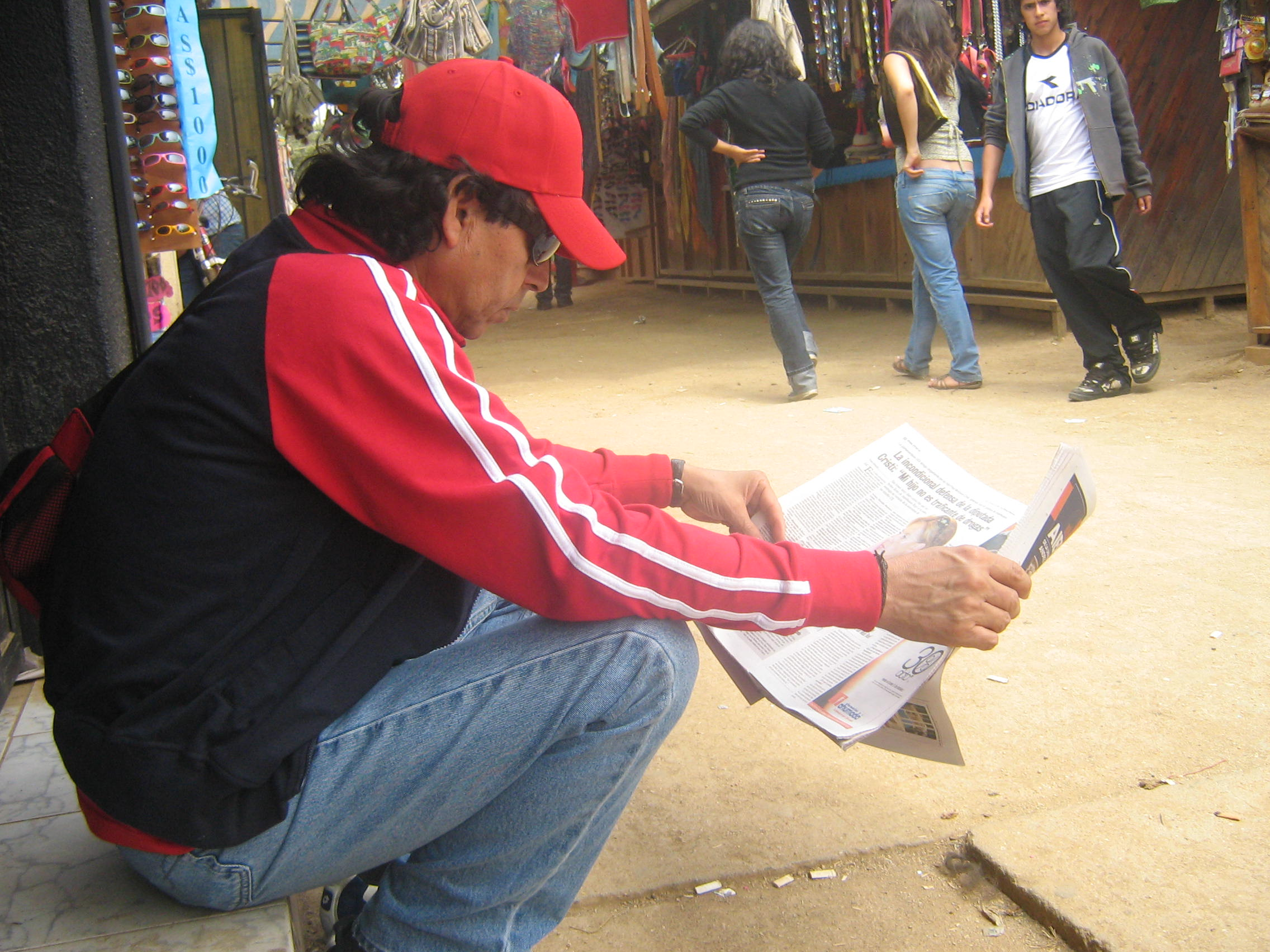 A man reading Las Últimas Noticias.